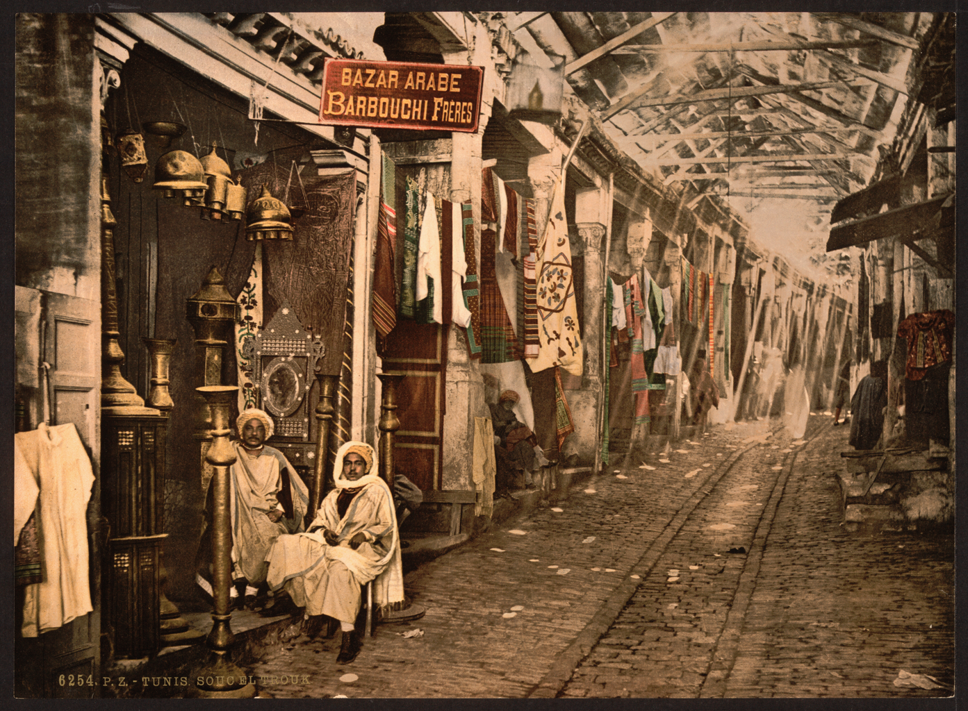 This photochrome print from around 1899 is from “Views of Architecture and People in Tunisia” in the catalog of the Detroit Photographic Company. It depicts the Souc-el-Trouk, or bazaar, in the city of Tunis. The Detroit Photographic Company was launched as a photographic publishing firm in the late 1890s by Detroit businessman and publisher William A. Livingstone, Jr. and photographer and photo-publisher Edwin H. Husher. They obtained the exclusive rights to use the Swiss "Photochrom" process for converting black-and-white photographs into color images and printing them by photolithography. This process permitted the mass production of color postcards, prints, and albums for sale to the American market. Bazaars; Men